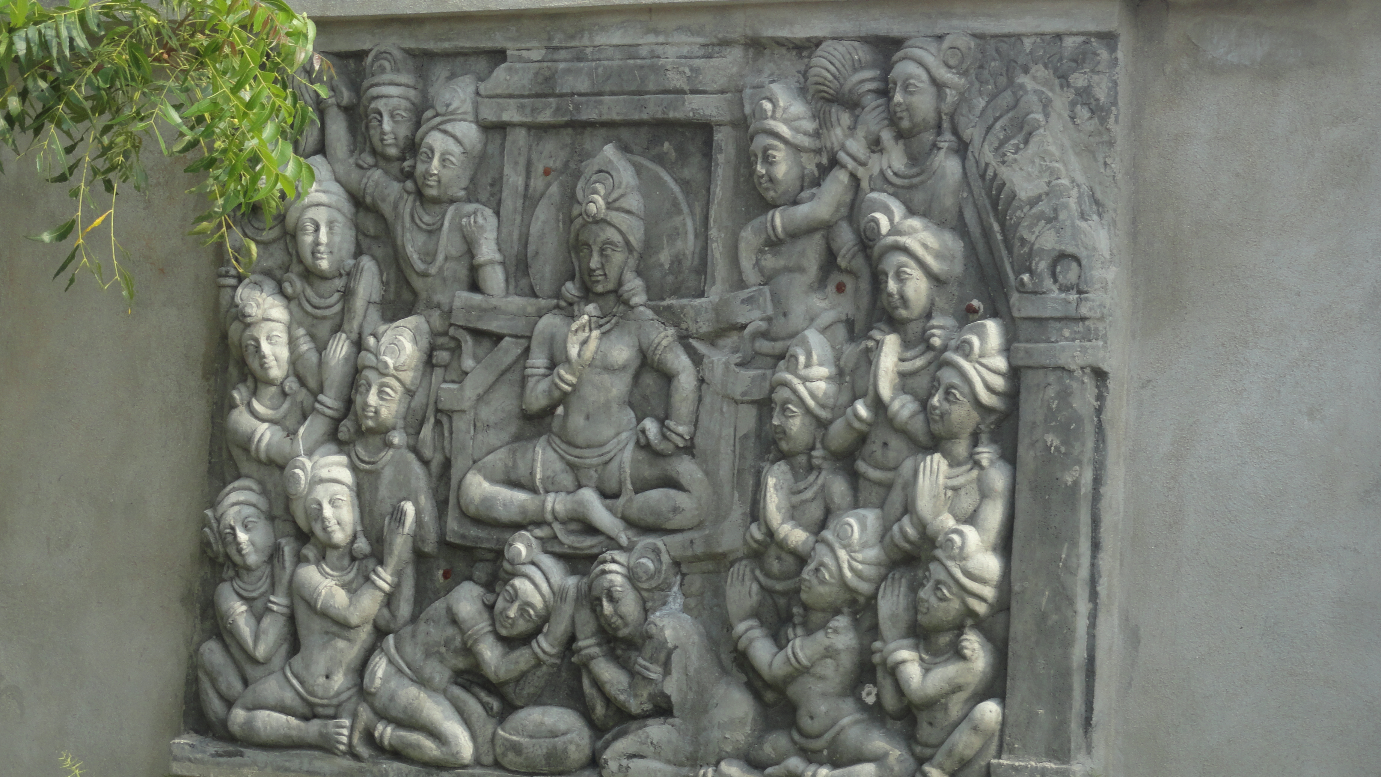 amaravati A.P sculptures